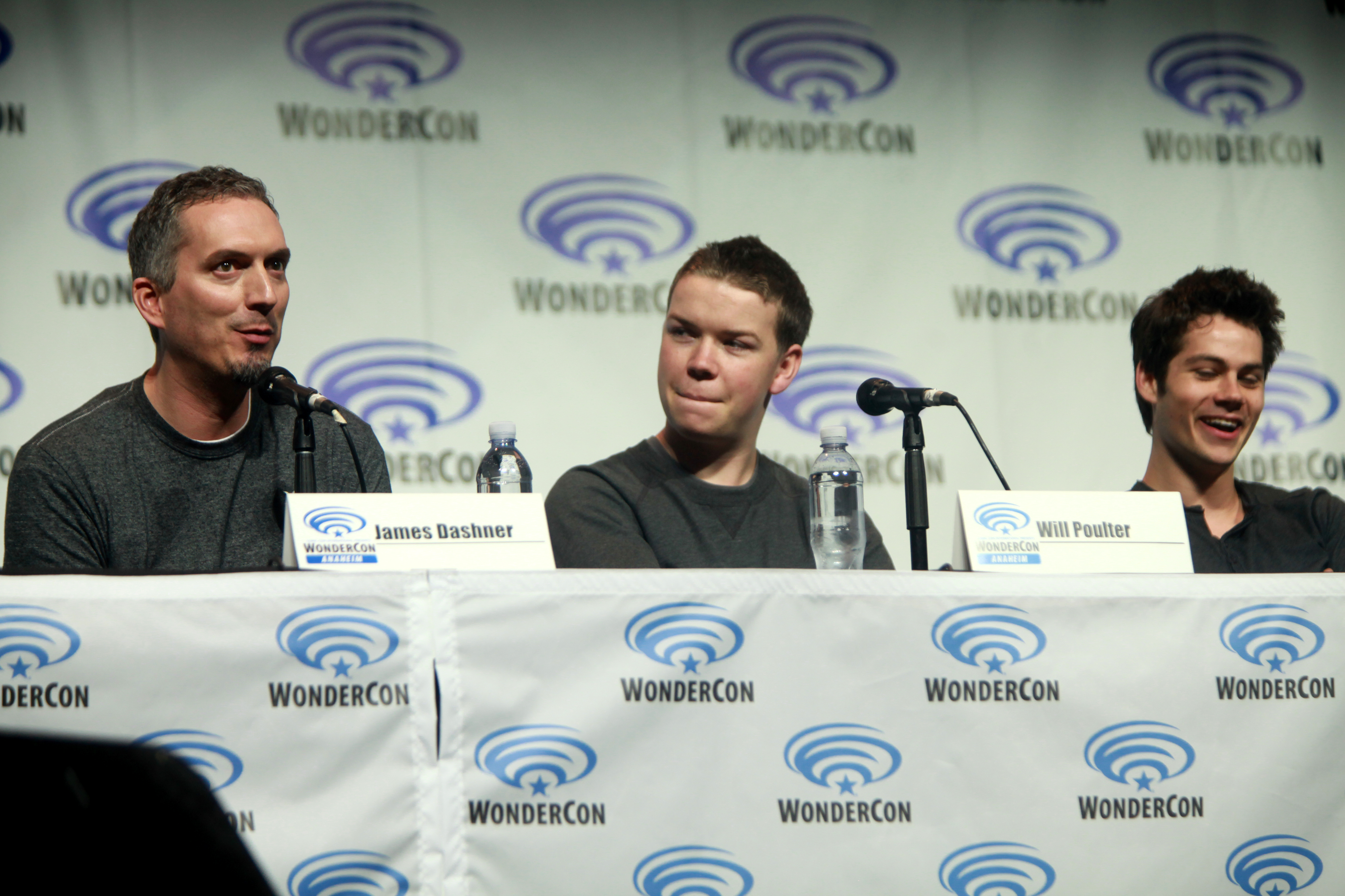 James Dashner, Will Poulter and Dylan O'Brien speaking at the 2014 WonderCon, for "The Maze Runner", at the Anaheim Convention Center in Anaheim, California.